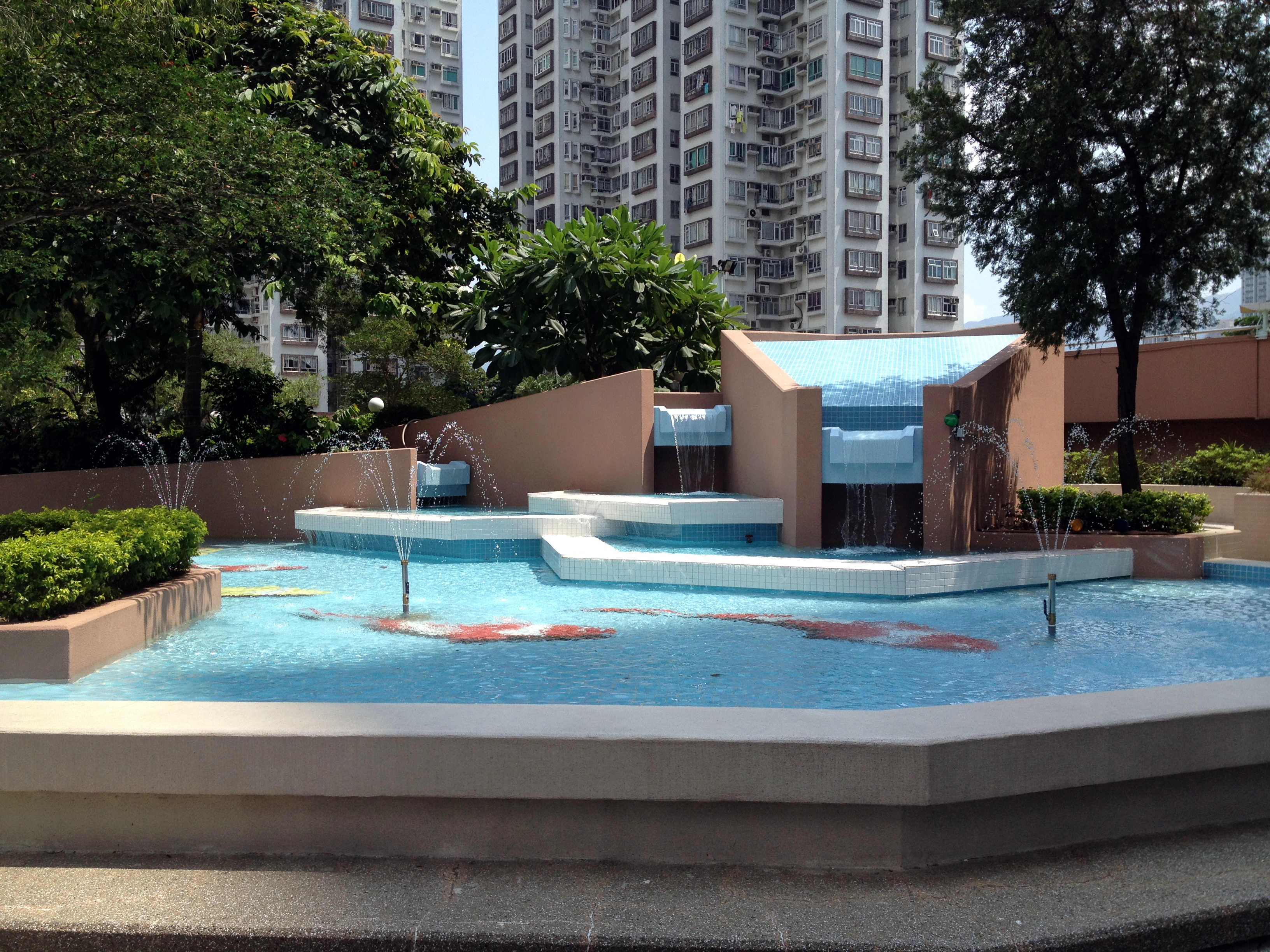 Shatin Centre L4 Podium Garden